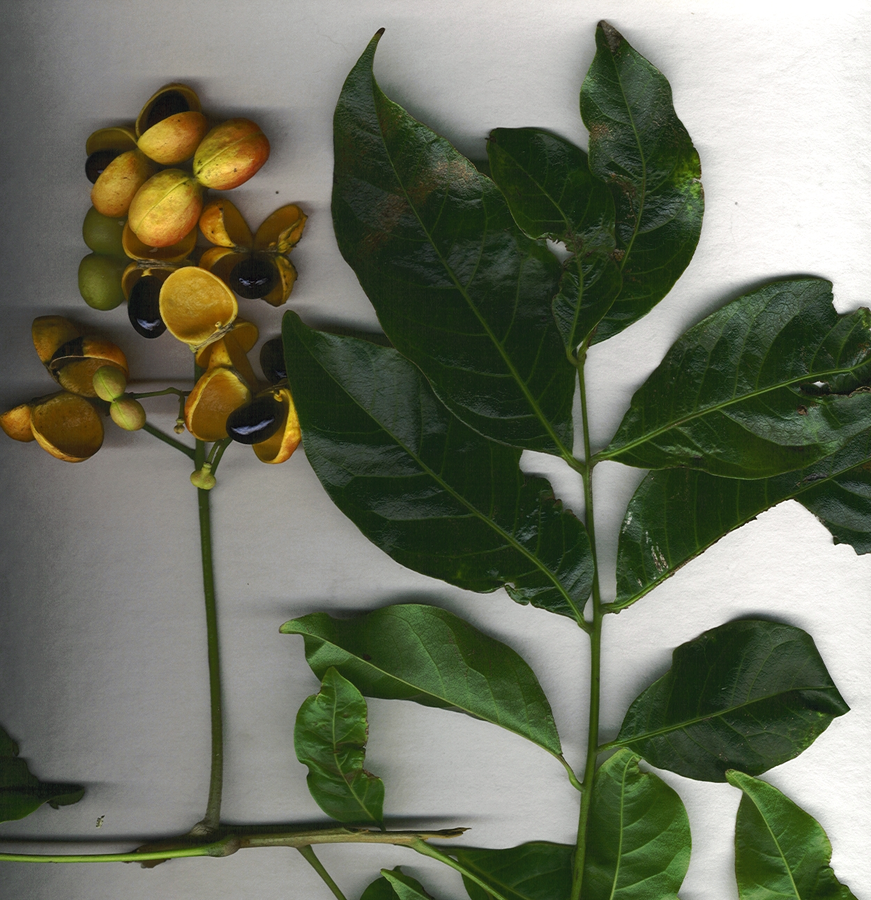 Harpullia pendula (branch and fruit). Location: Maui, Pukalani